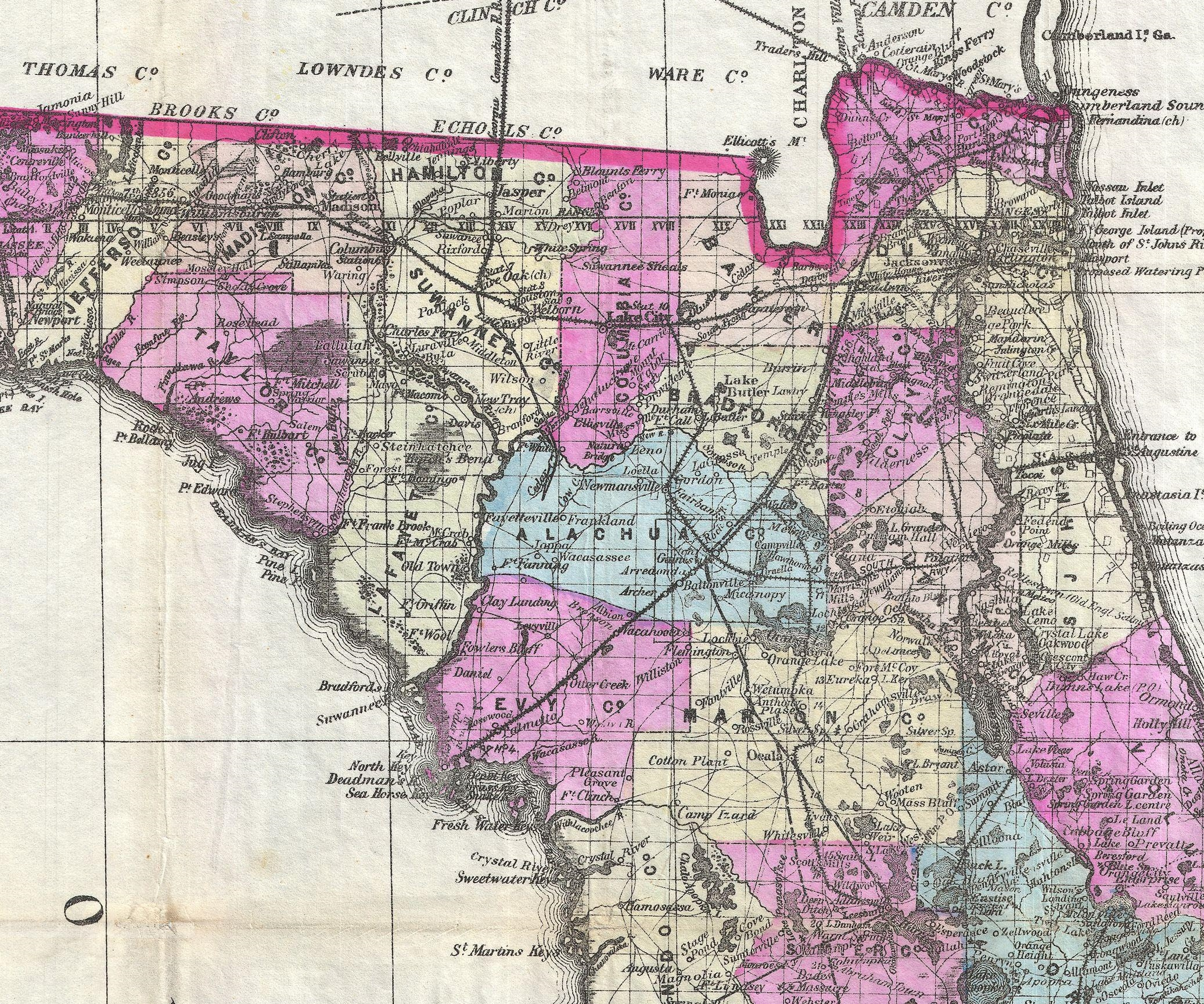 Crop of File:1884 Drew Pocket Map of Florida - Geographicus - Florida-drew-1884.jpg focusing on the northern Florida Peninsula.